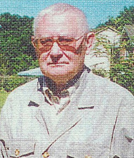 This is a cropped photograph of Rio Preisner and myself. It was taken by a family member with my camera and is completely my property.